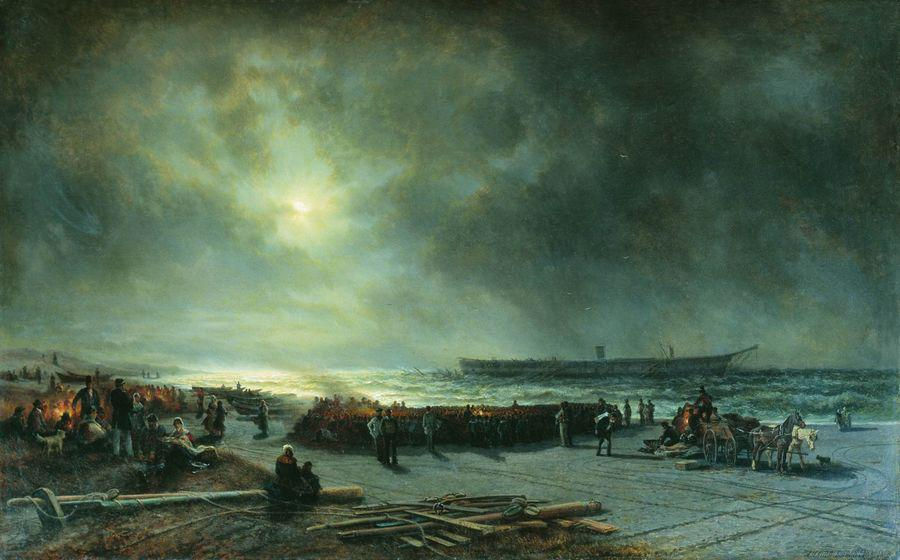 Wreck of the Frigate "Alexander Nevsky" (night view)